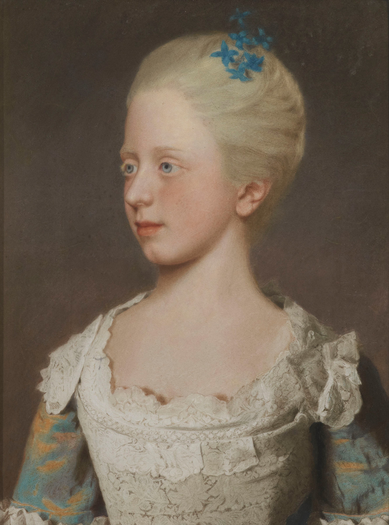 In 1754 Augusta, Princess of Wales, commissioned a pair of portraits of herself and her late husband, Frederick Prince of Wales (eldest son of George II who had died in 1751), and a series of portraits of herself and her nine children, from Jean-Etienne Liotard.